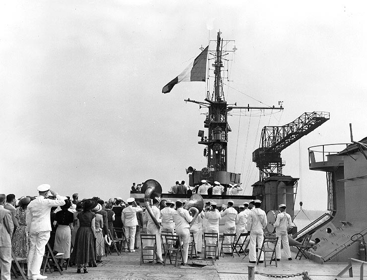 Commissioning of the light aircraft carrier USS Langley (CVL-27) as the French La Fayette (R96) on 2 June 1951: Raising of the French national flag, as the ship was formally transferred to France in ceremonies at the Philadelphia Naval Shipyard, Pennsylvania (USA). Note the U.S. Navy bandsmen in the center foreground.